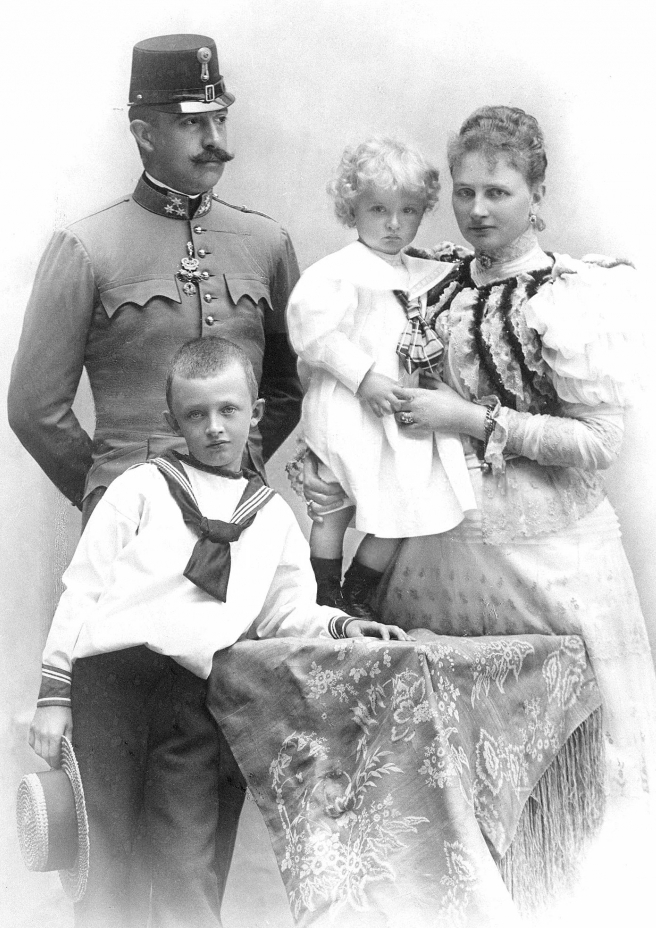 Archduke Otto Franz of Austria 1865-1906, brother of Franz Ferdinand, father of Emperor Karl I (IV) of Austria-Hungary, with wife Royal Princess Maria Josefa of Saxon and children